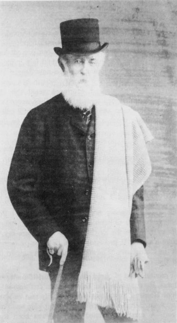 John Fraunceis Eyre, 25th Knight of Glin